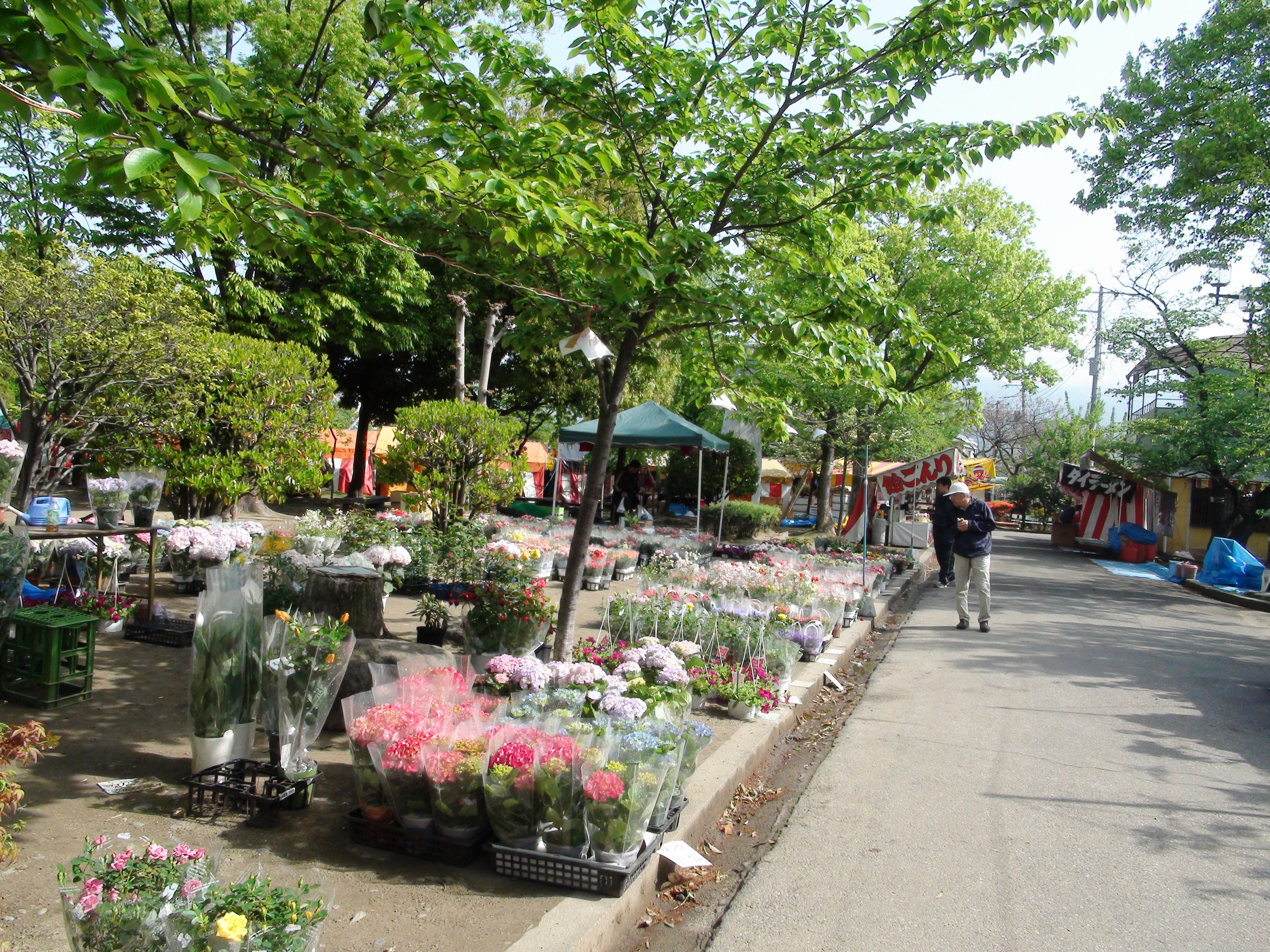 Shonoki Festival